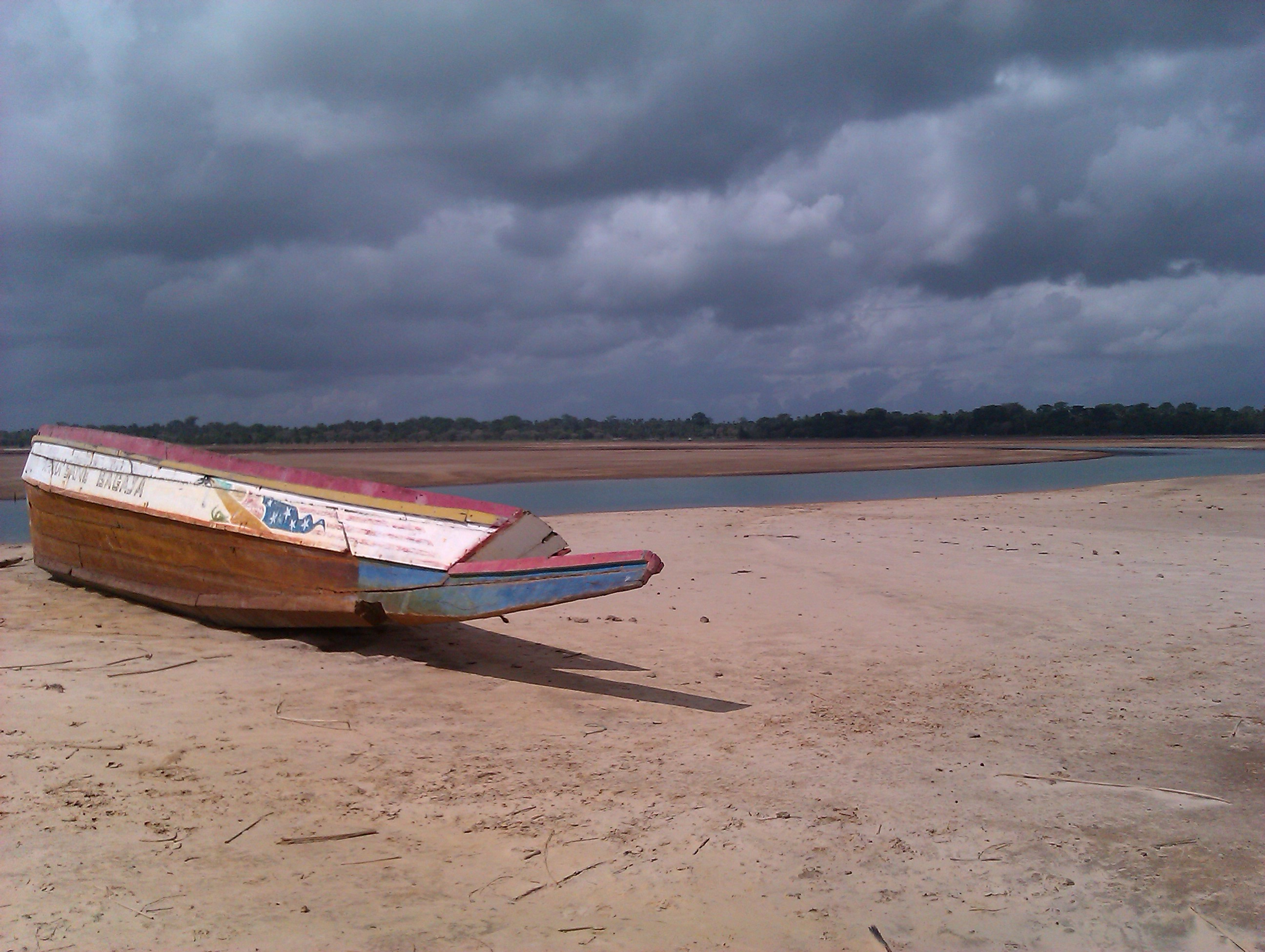 Prow in Bagaya (Senegal)